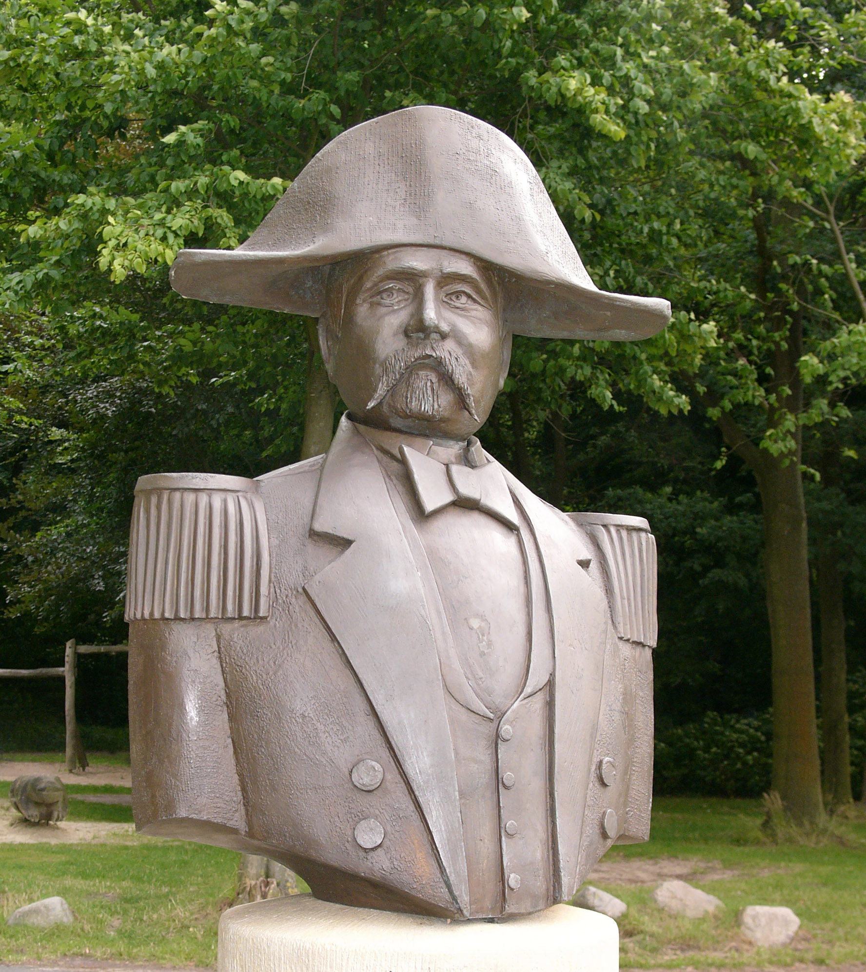 Memorial of Admiral Brommy at the river Lesum in Bremen-Burglesum, Germany